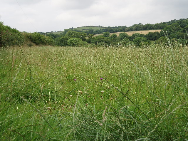 Hay Meadow by Lanjew Farm. Taken walking down through the meadow towards the strip of woodland by Prince Park